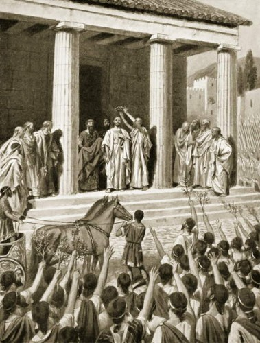 Themistocles honoured at Sparta, illustration from 'Hutchinson's History of the Nations', 1915